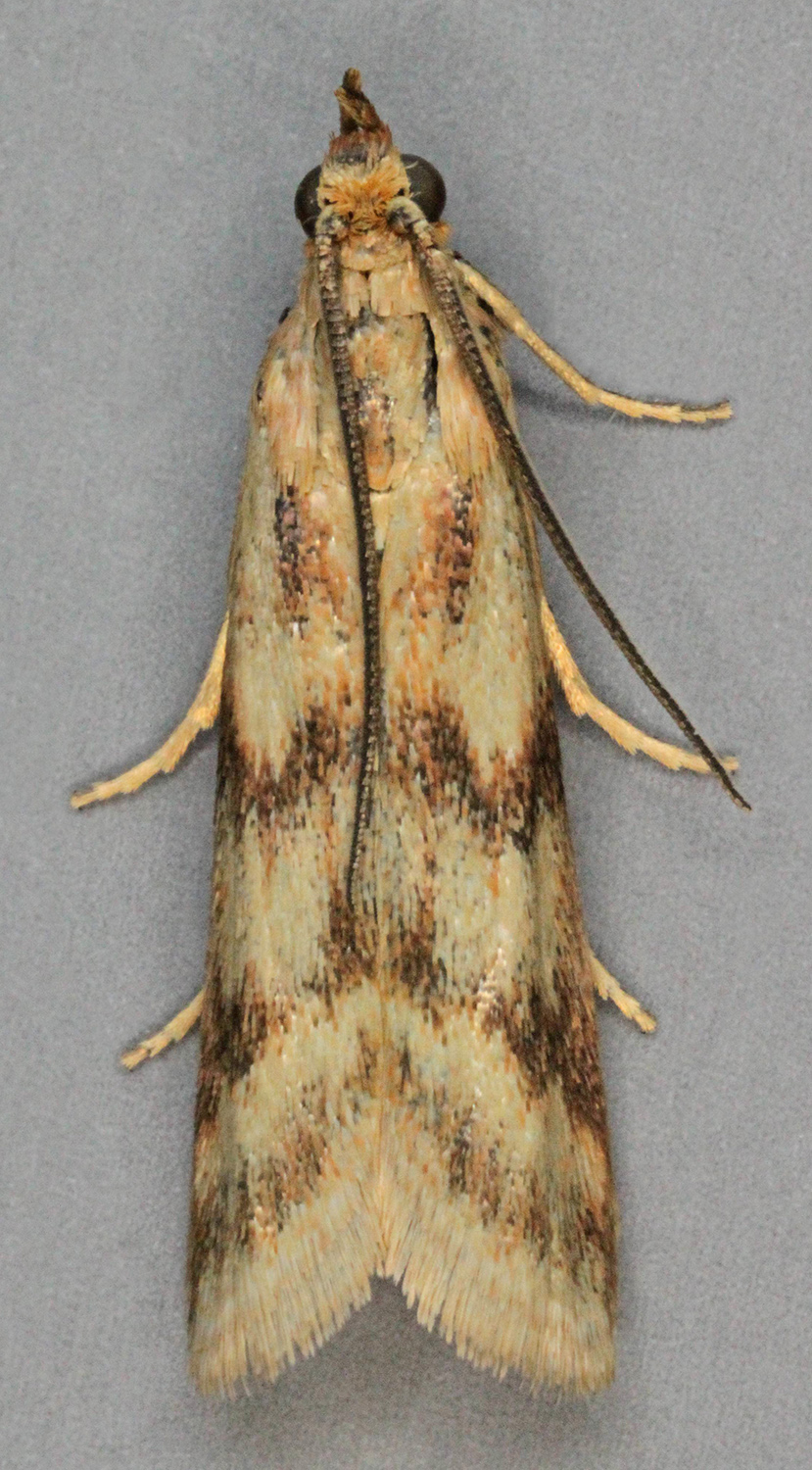 Homoeosoma sinuella, Deeside, North Wales, July 2011 (1)